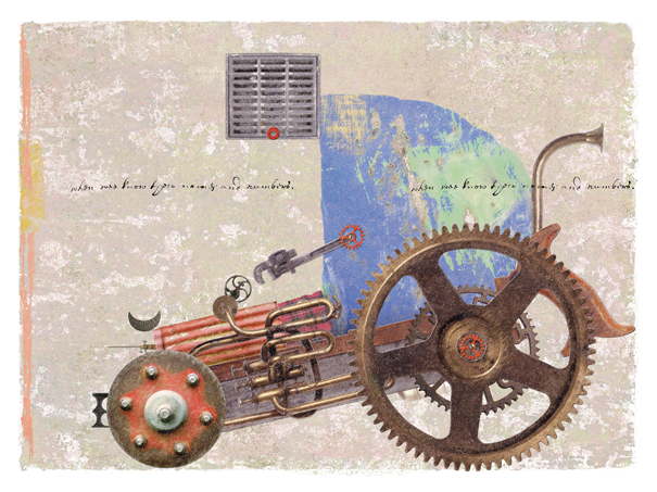 Giclée collage by Jeroen Lenssinck